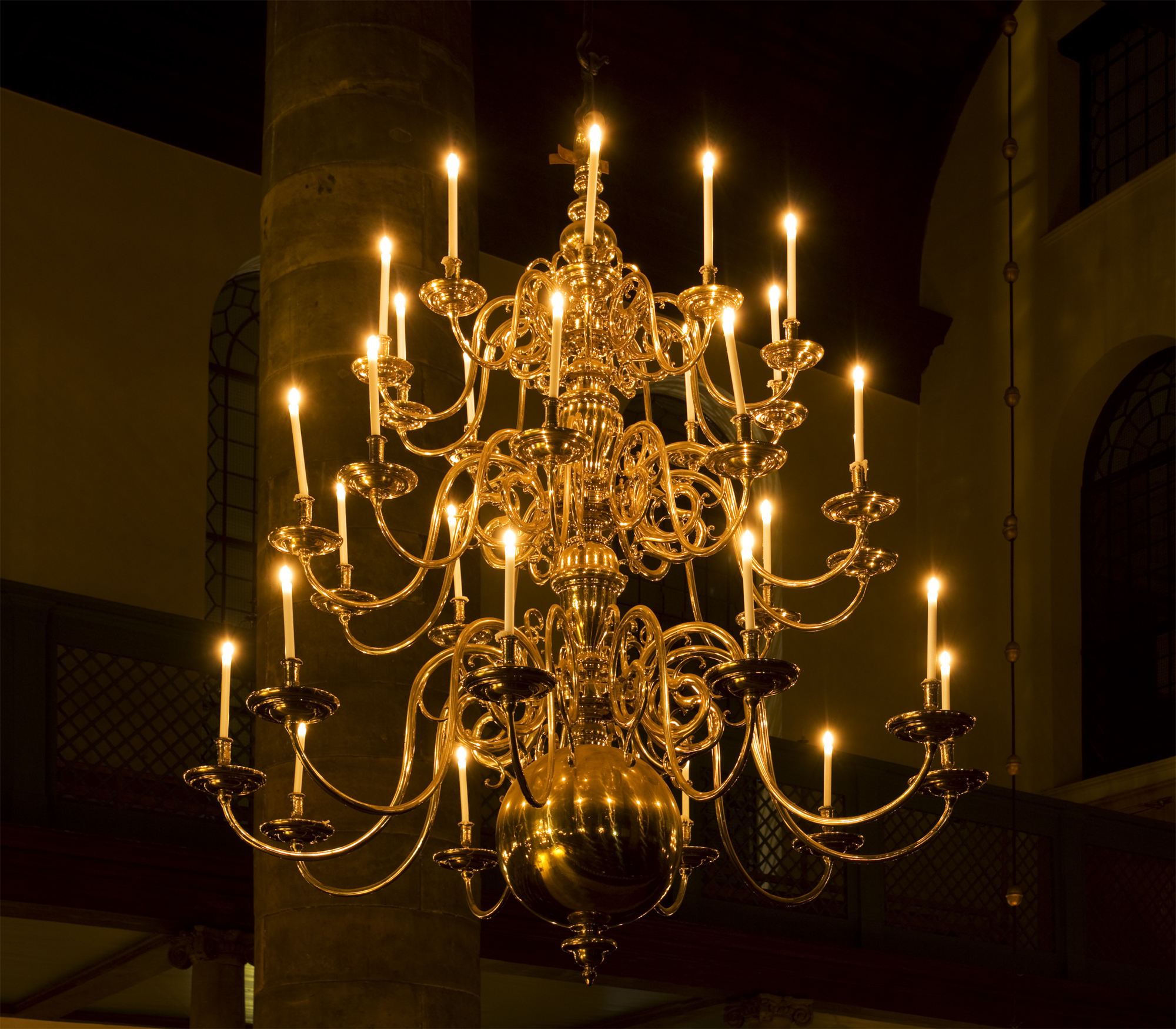 An antique chandelier lit up by candles in the Esnoga in Amsterdam, the Netherlands.